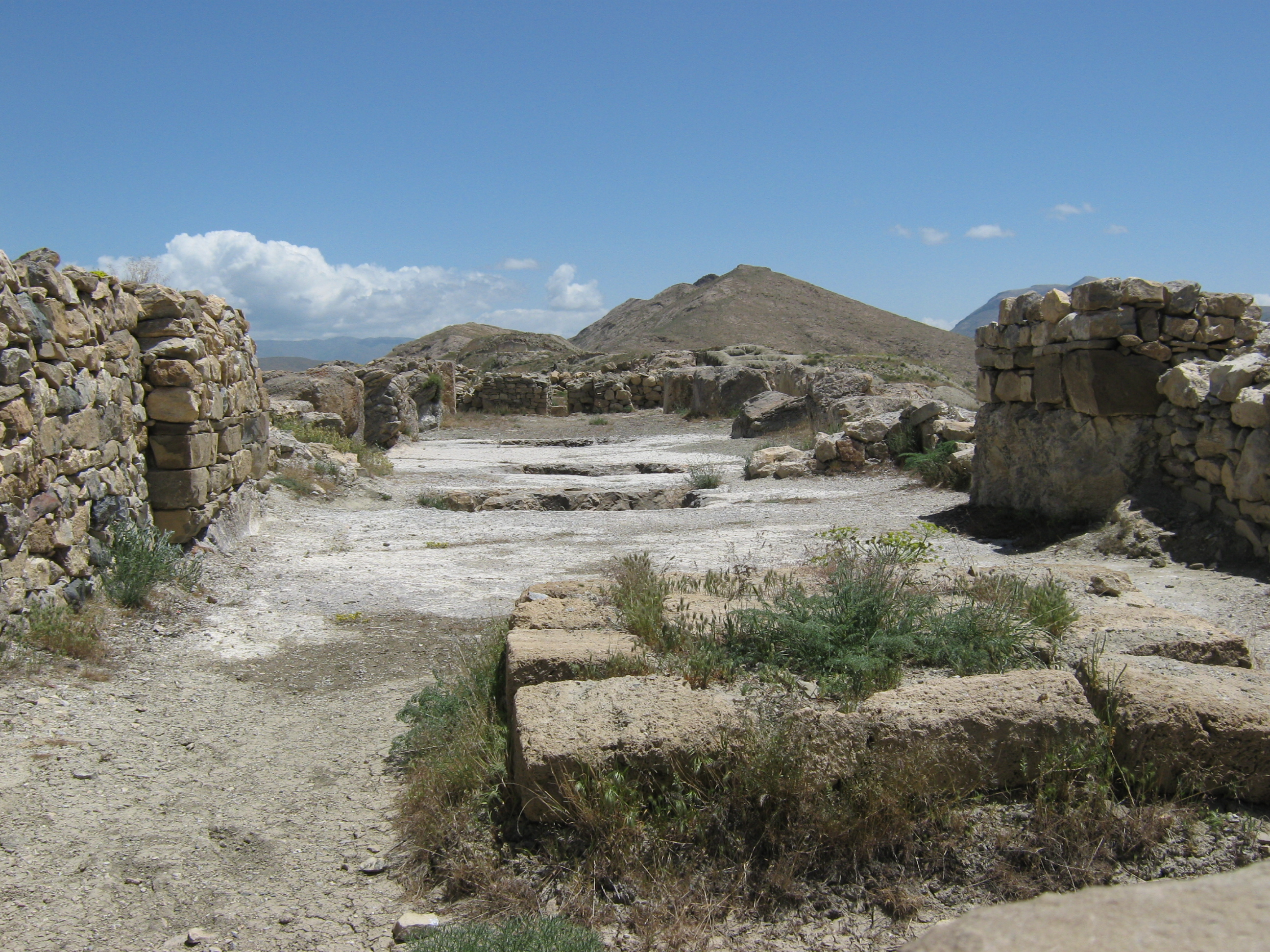 Throneroom at Çavuştepe